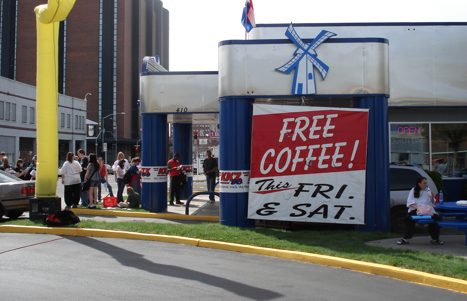 Free coffee at a Dutch Bros. coffee shop in Spokane, Washington